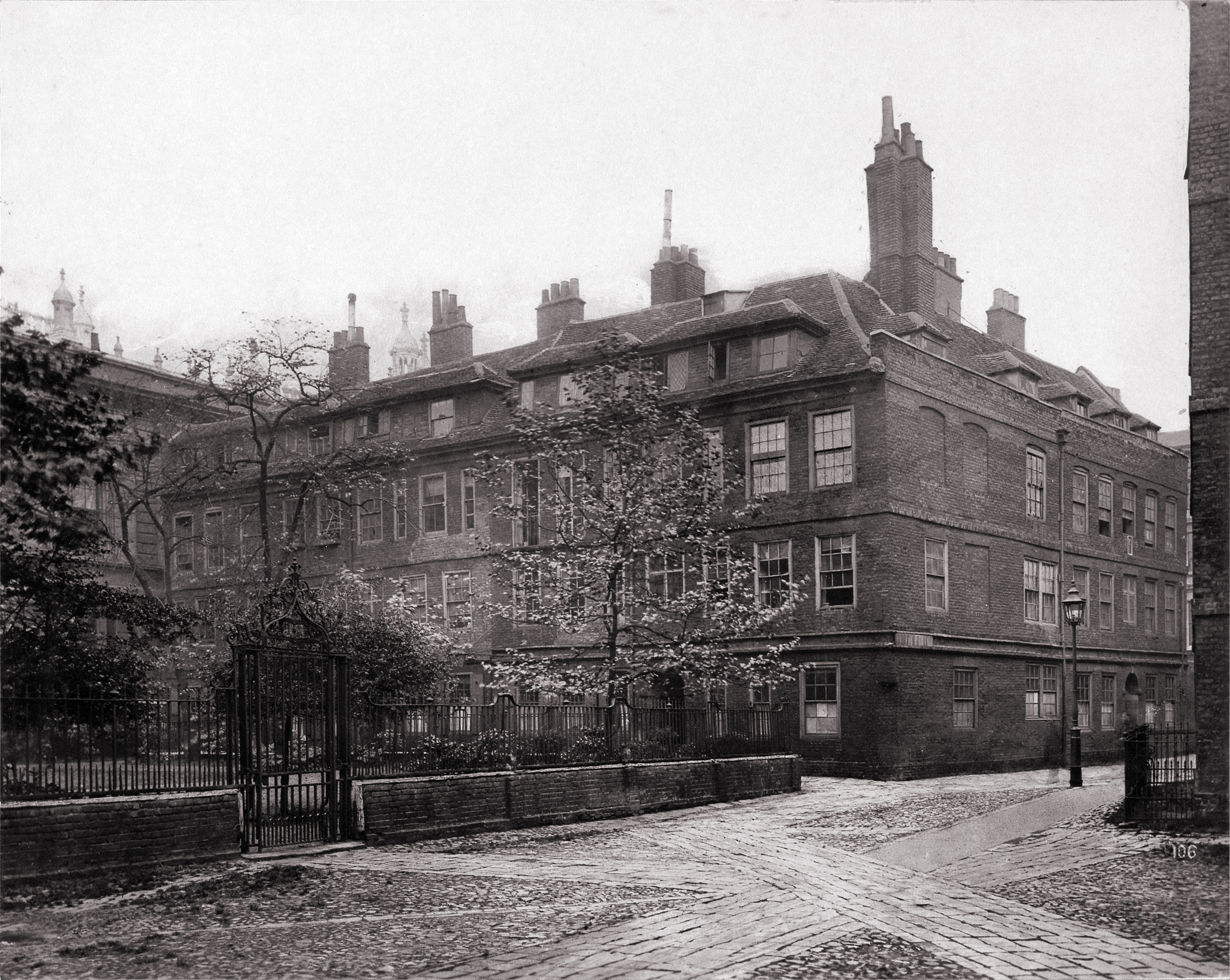 Clifford's Inn, former Inn of Chancery, London. Courtesy of the British Library.